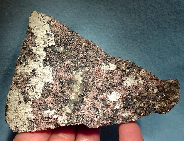 Långbanite, Rhodonite Locality: Långban, Filipstad, Värmland, Sweden (Locality at ) Size: 11.0 x 8.2 x 5.2 cm. Langbanite is an very rare silicate, found in only 5 localities worldwide. The Langban manganese-iron deposit of Sweden is the Type Locality. This cabinet manganese ore specimen is essentially solid langbanite and the black langbanite microcrystals are beautifully complimented by the rose-red rhodonite crystals. Ex. Yale Peabody Museum Collection.